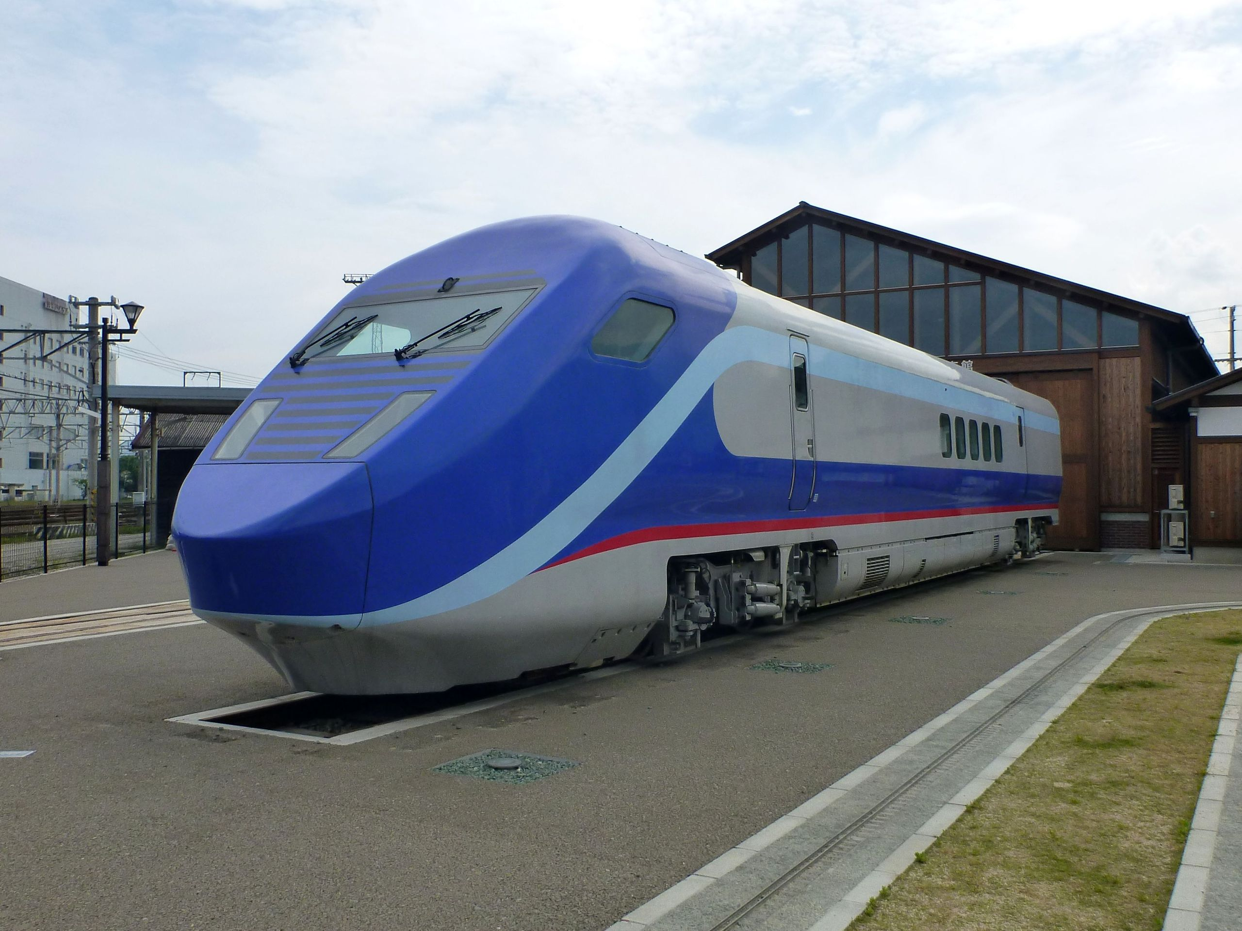 End car GCT01-201 of the former second-generation "Gauge Change Train" preserved at the Railway History Park in Saijo, Ehime